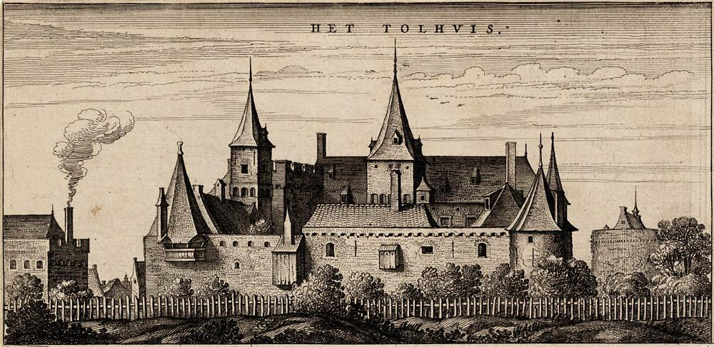 Castle "Tolhuis" near Lobith (Netherlands)